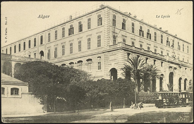 Postcard of Algiers, early 20th century Creator: V.P. Paris Date: early 20th century Accession number: ZPC2 A1A4 Featured in the exhibition, Walls of Algiers: Narratives of the City, May 19 - October 18, 2009 at the Getty Research Institute. Part of the Cities and Sites Postcard collection in the Getty Research Institute Library's special collections. View the library record for this collection.